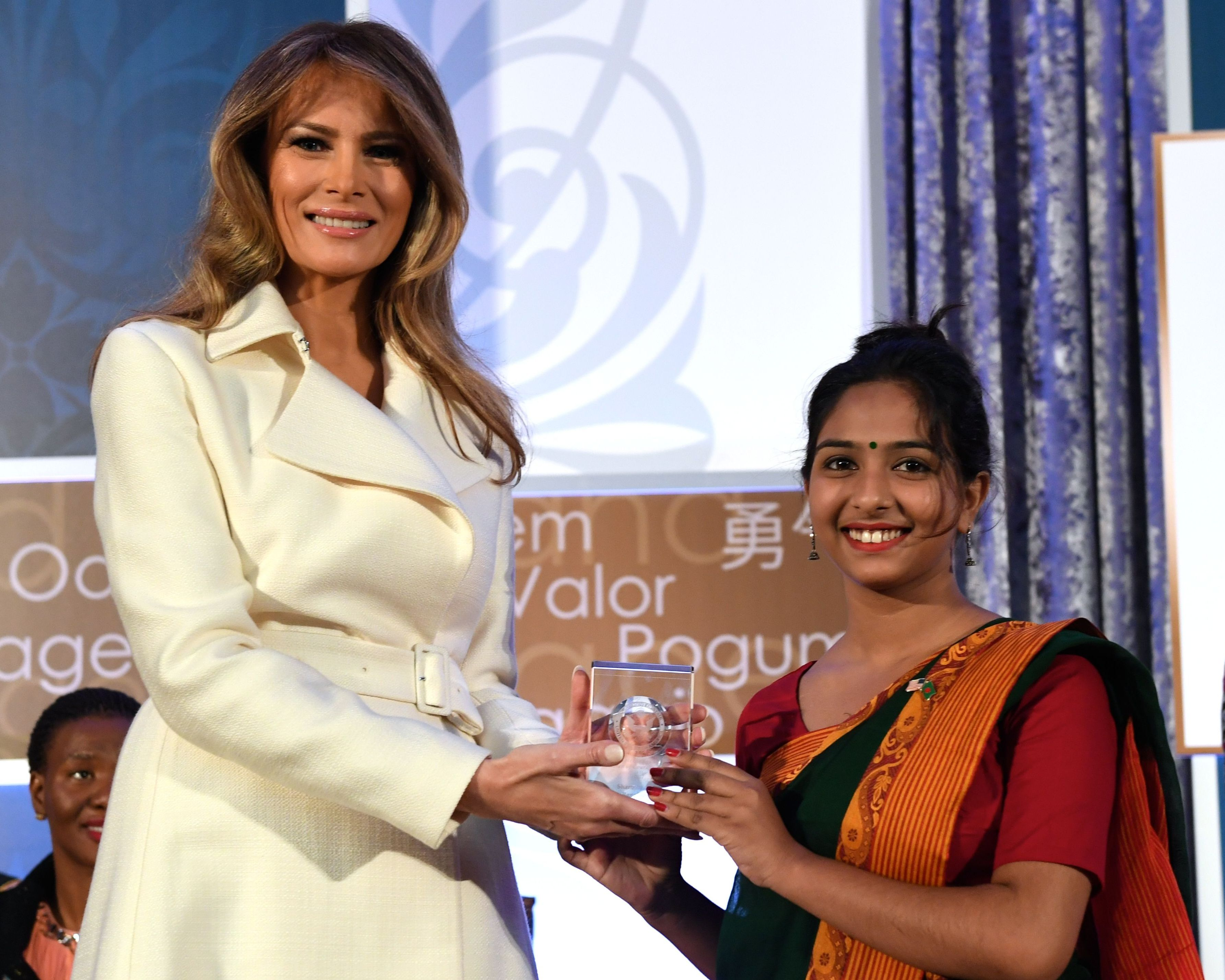 Sharmin Akter at the International Women of Courage Award 2017 "First Lady Melania Trump poses for a photo with 2017 International Women of Courage Awardee Sharmin Akter of Bangladesh during a ceremony at the U.S. Department of State in Washington, D.C., on March 29, 2017." "At only 15 years of age, Sharmin Akter courageously resisted her mother's attempts to marry her off and secured the precious right to continue her education, setting an example for teenage girls across South Asia facing similar pressures. Bangladesh has one of the world's highest rates of child marriage, a trend that threatens the health, safety, and education of millions of girls and undermines the country's progress. Sharmin demonstrated exceptional courage and self-possession by refusing to be coerced into marrying a man who is decades older than her. She dared to break the silence expected of women and girls and advocated for her rights, eventually bringing her mother and prospective husband to justice. Celebrated for her bravery, Sharmin today is a student at Rajapur Pilot Girls High School where she dreams of becoming a lawyer to campaign against the harmful tradition of early and forced marriage." [1]